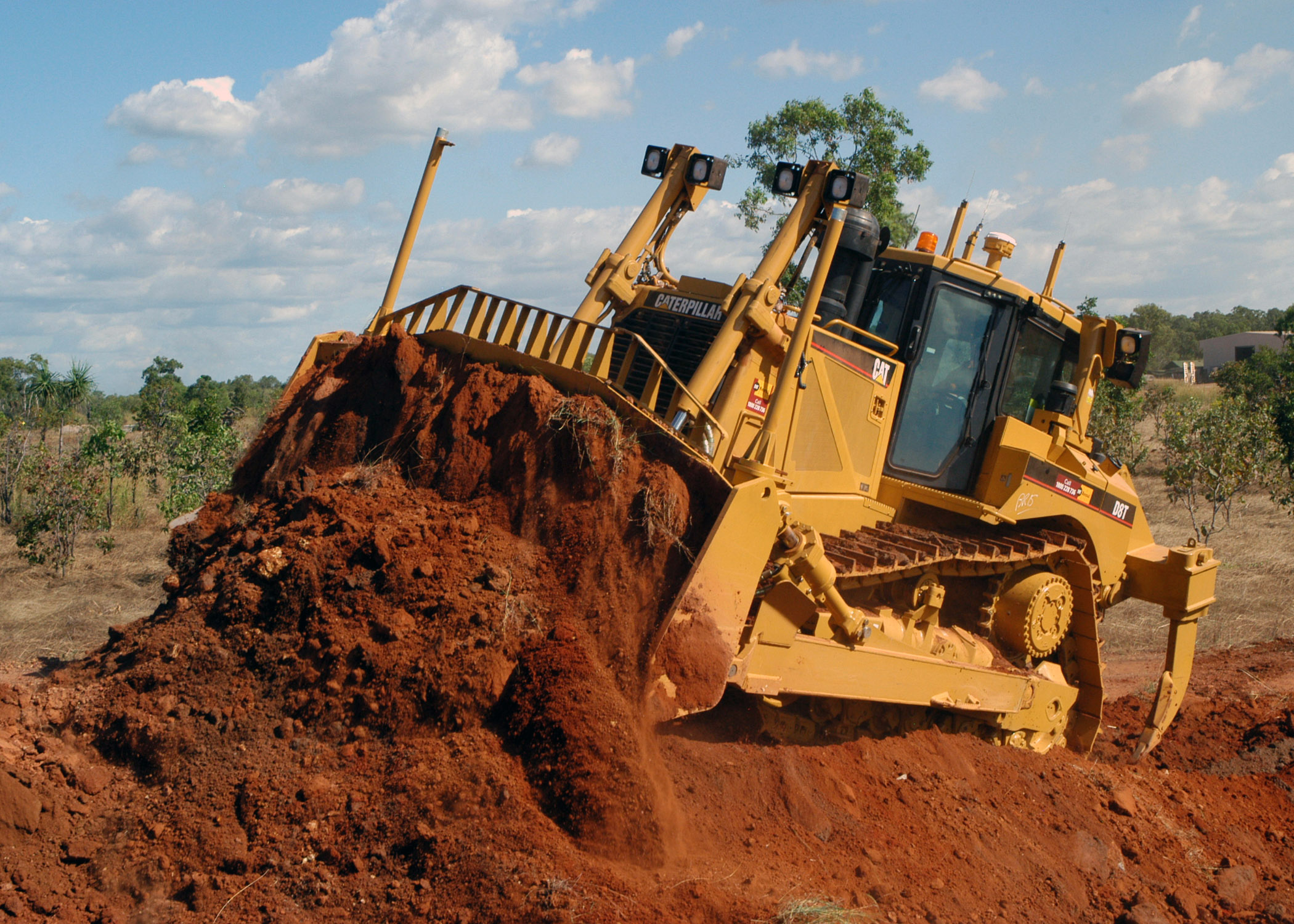 DARWIN, Australia (May 21, 2007) — Equipment Operator 1st Class Lawrence A. Zeigler practices training on a D8T bulldozer at Robertson Barracks Driver Training Area, Australia. Members of NMCB 4 are deployed in support of a United States, Australian Defense Joint Rapid Airfield Construction (JRAC) exercise "Talisman Saber." Exercise Talisman Saber is designed to maintain a high level of interoperability between U.S. and Australian forces, demonstrating the U.S. and Australian commitment to our military alliance and regional security.